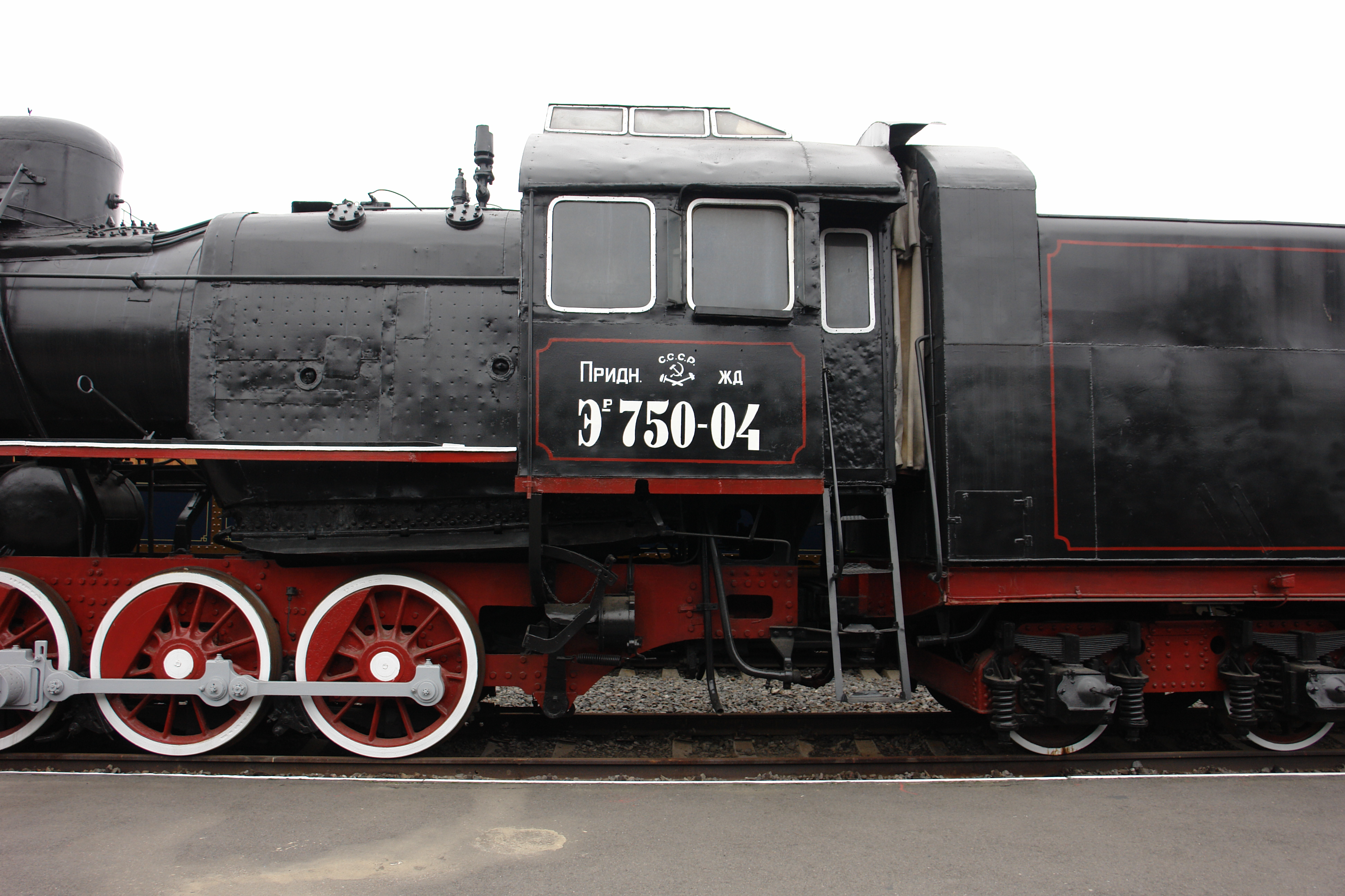 Freight steam locomotive Er 750-04 Weight in serviceable condition:excluding tender85,8 t.including tender150 t.design speed65 km/hMaximum power on wheel rim1500 hp The class Er was a development of the class Em. (R means reconstructed). It has a larger firebox. Built by Kolomna Works in 1943. Equipped with a boiler from the Su passenger class which was no longer being produced because of the war.